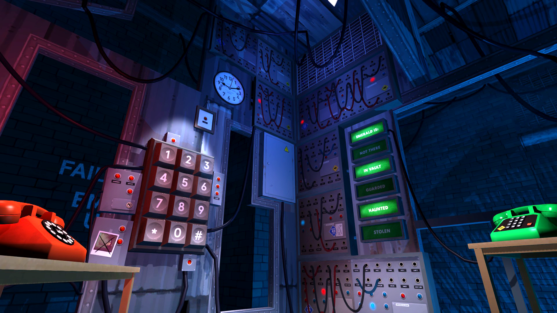 Official screenshot of Dr. Langeskov, The Tiger, and The Terribly Cursed Emerald: A Whirlwind Heist